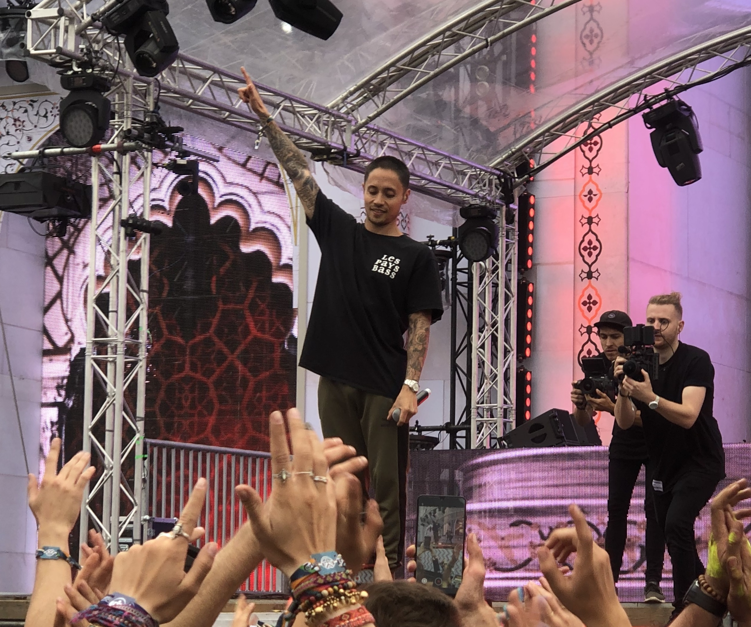 Bassjackers plaing live at Airbeat One Festival 2019 in Neustadt-Glewe, Germany.